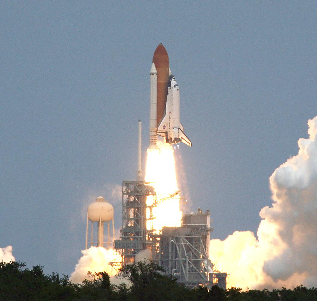 Launch of Space Shuttle Atlantis on STS-125. Cropped version of STS-125 launch.jpg